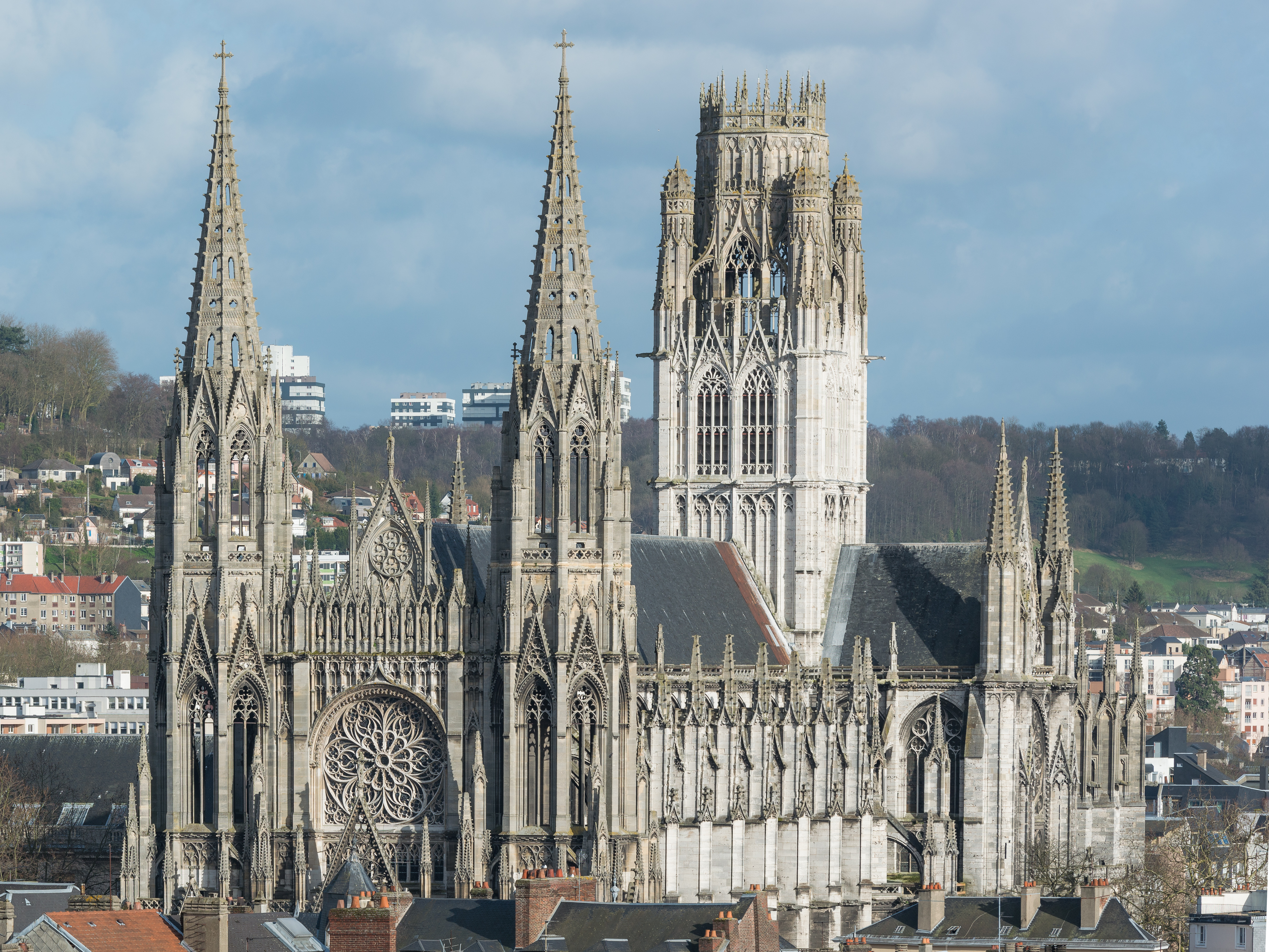 The Church of St. Ouen in Rouen as seen from the Gros Horloge tower